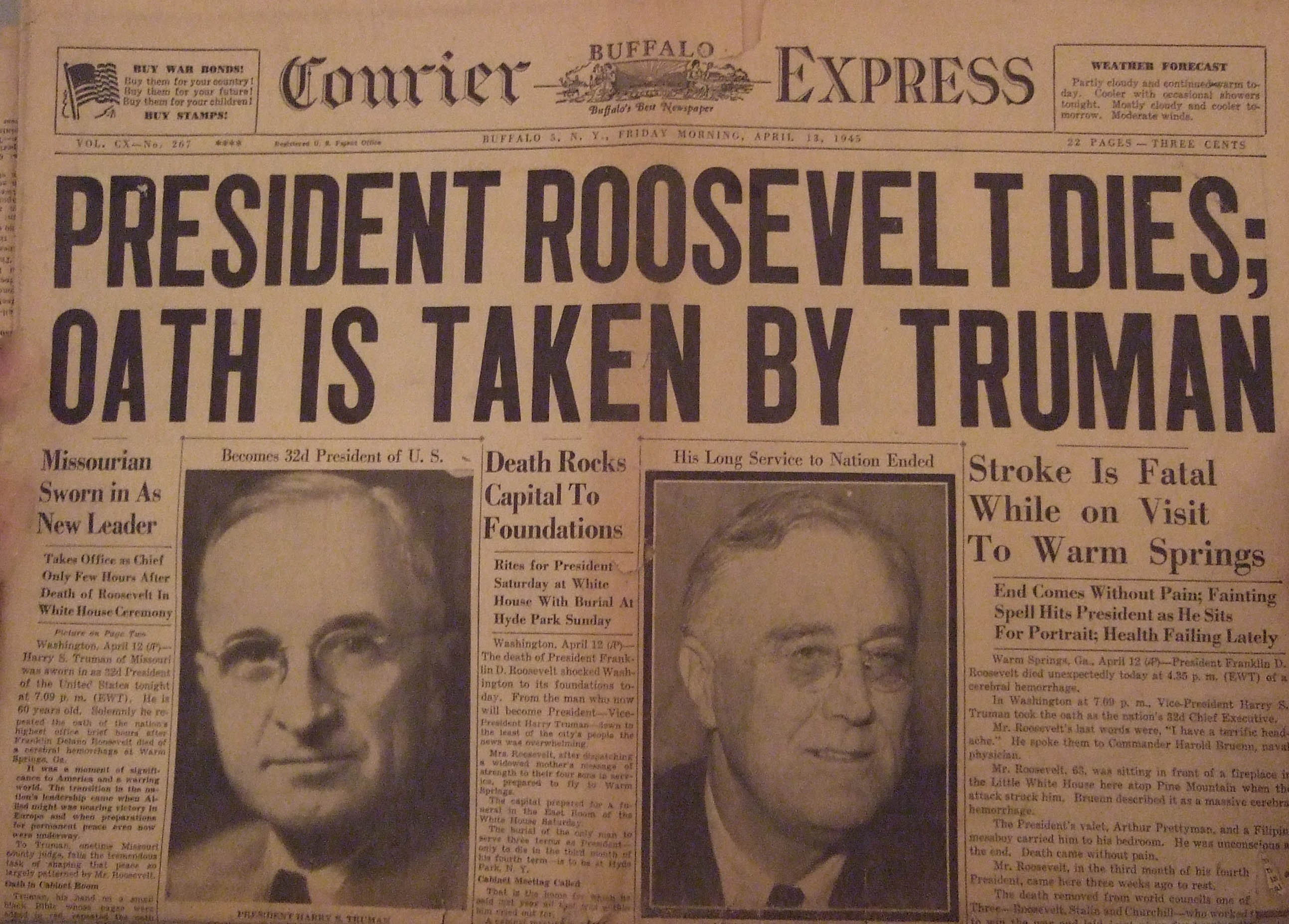 Front page(Buffalo Courier Express) Truman is sworn into office. This paper was created on April 13 1945. This paper does not have a copyright notice on it and is over 50 years old.